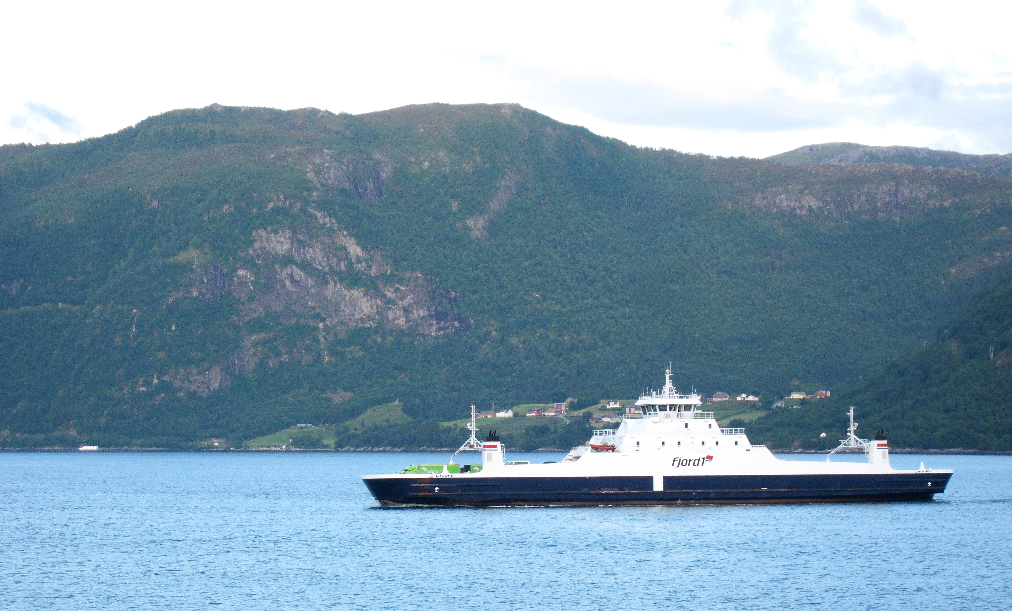 Car ferry "MF Lifjord" on Lavik-Oppedal Sognefjord E39